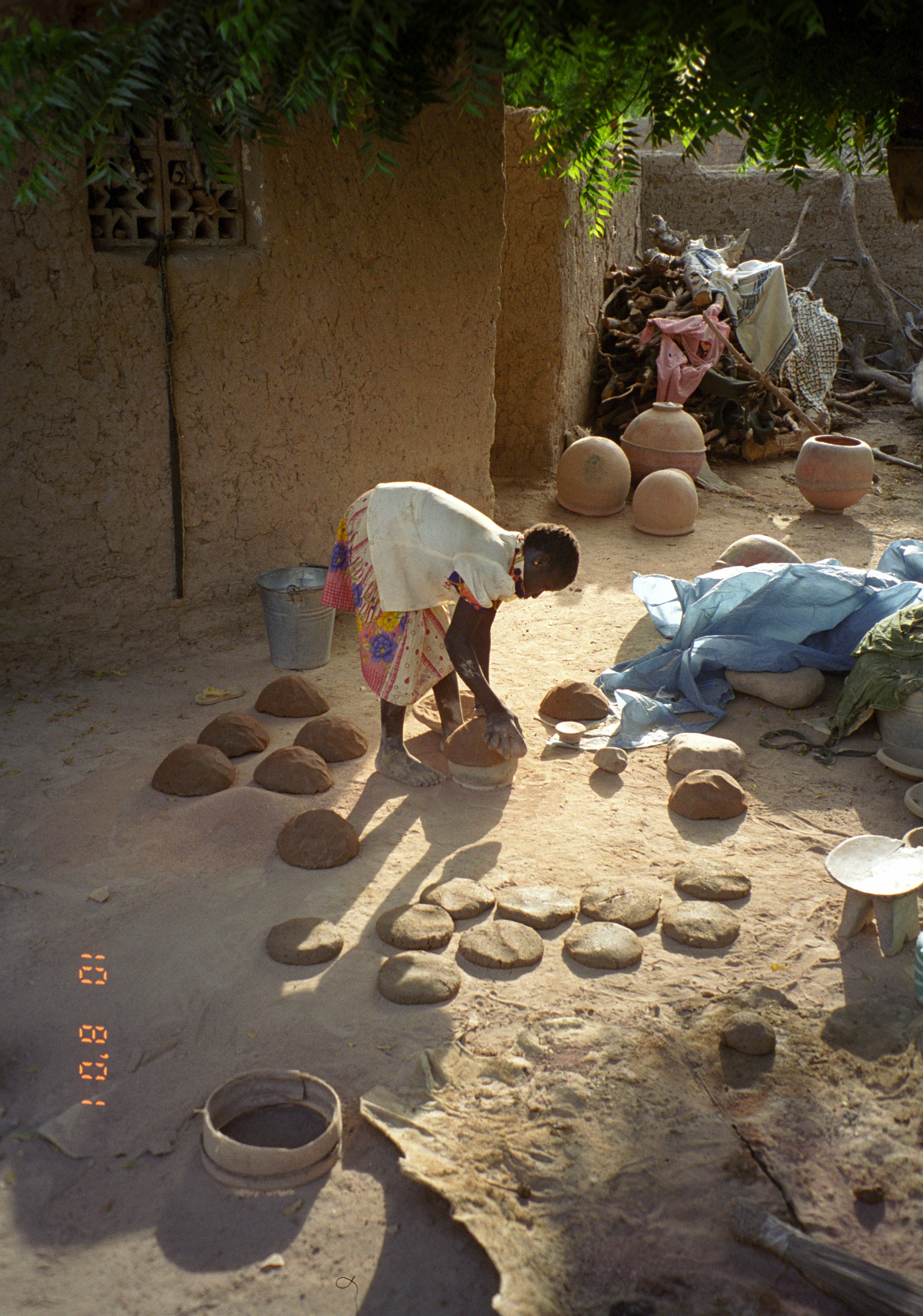 the few women who did not go to the market were working on their next batch of pottery